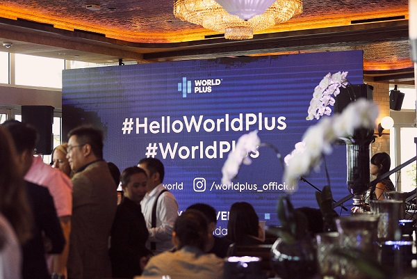 World Plus Opening Ceremeony at Marina Bay Sands